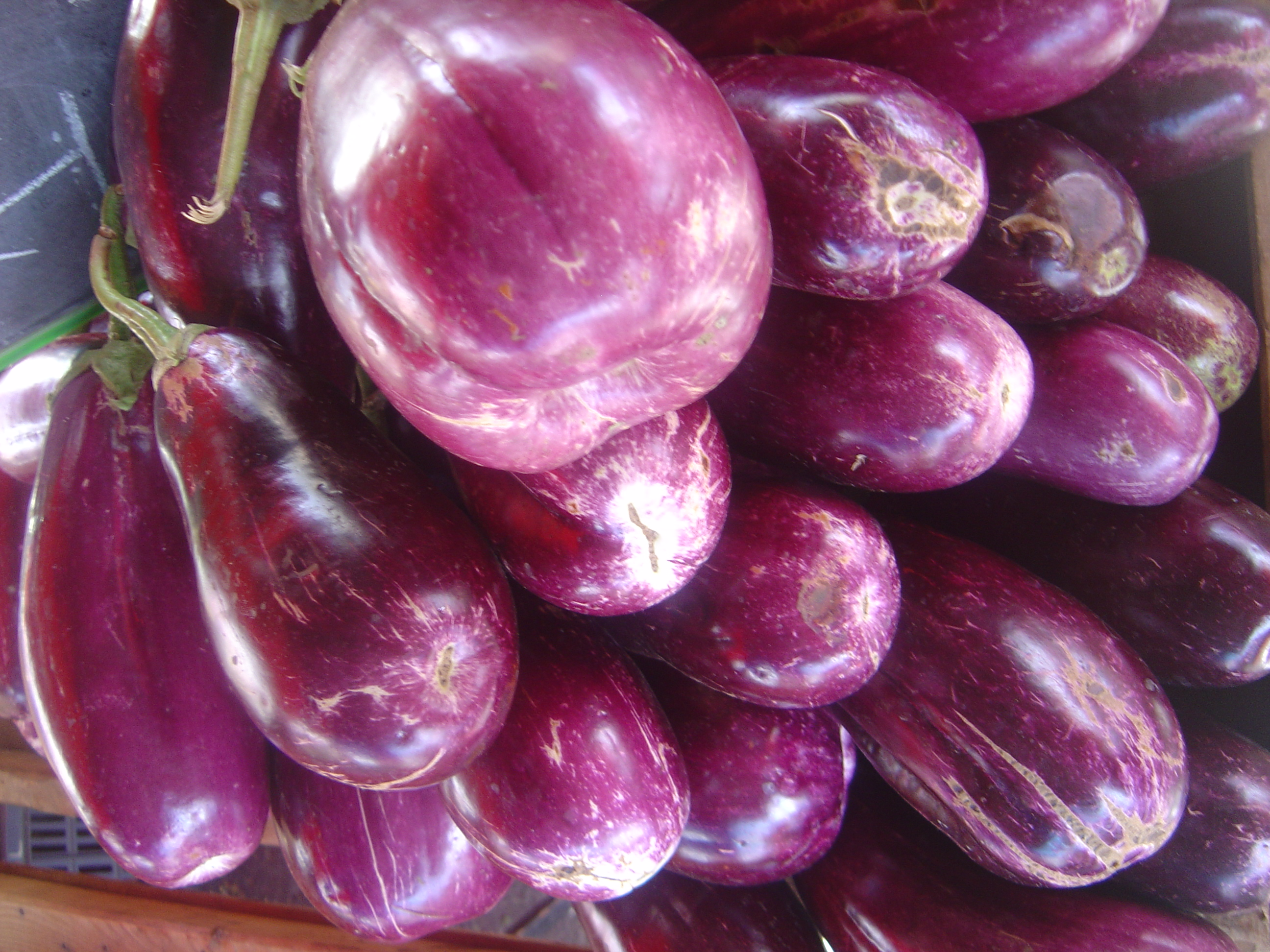 Eggplants ("bringelles") from Réunion Island Unknown exact species/variety.